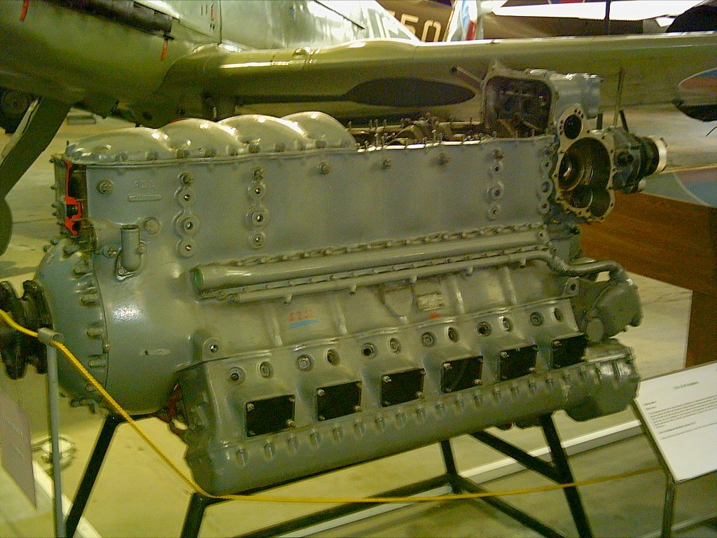 Czechoslovak-made Junkers Jumo 211C, Kbely museum, Prague, Czech Republic